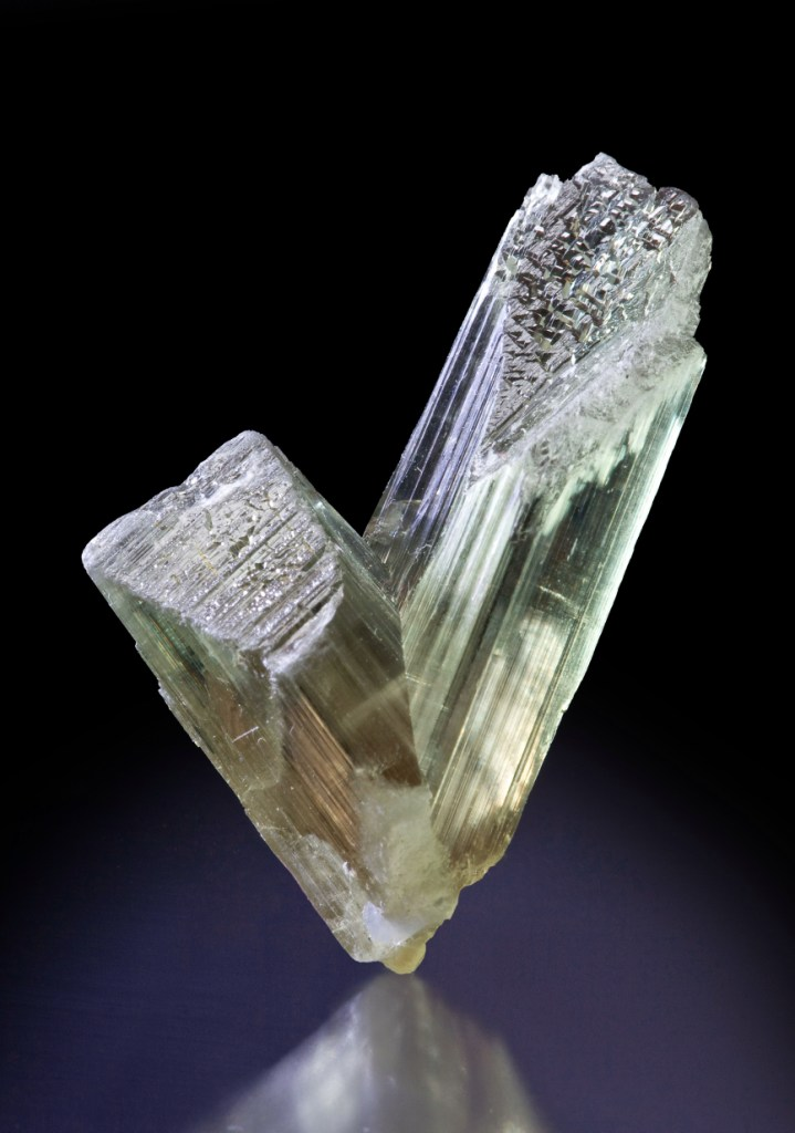 Diaspore Locality: Selçuk, Muğla Province, Aegean Region, Turkey Dimensions: 3.6cm x 3.6cm x 2.6cm Once an old classic, there was a lapse of production from this locality for decades. Now, re-mining efforts for specimens here have produced a probably brief burst of this old gem material again. This is a particularly robust and gemmy, twinned crystal. It is complete-all-around, and shows unusually well-developed, broad terminations. Ex. Bill Larson Collection. Joe Budd photo